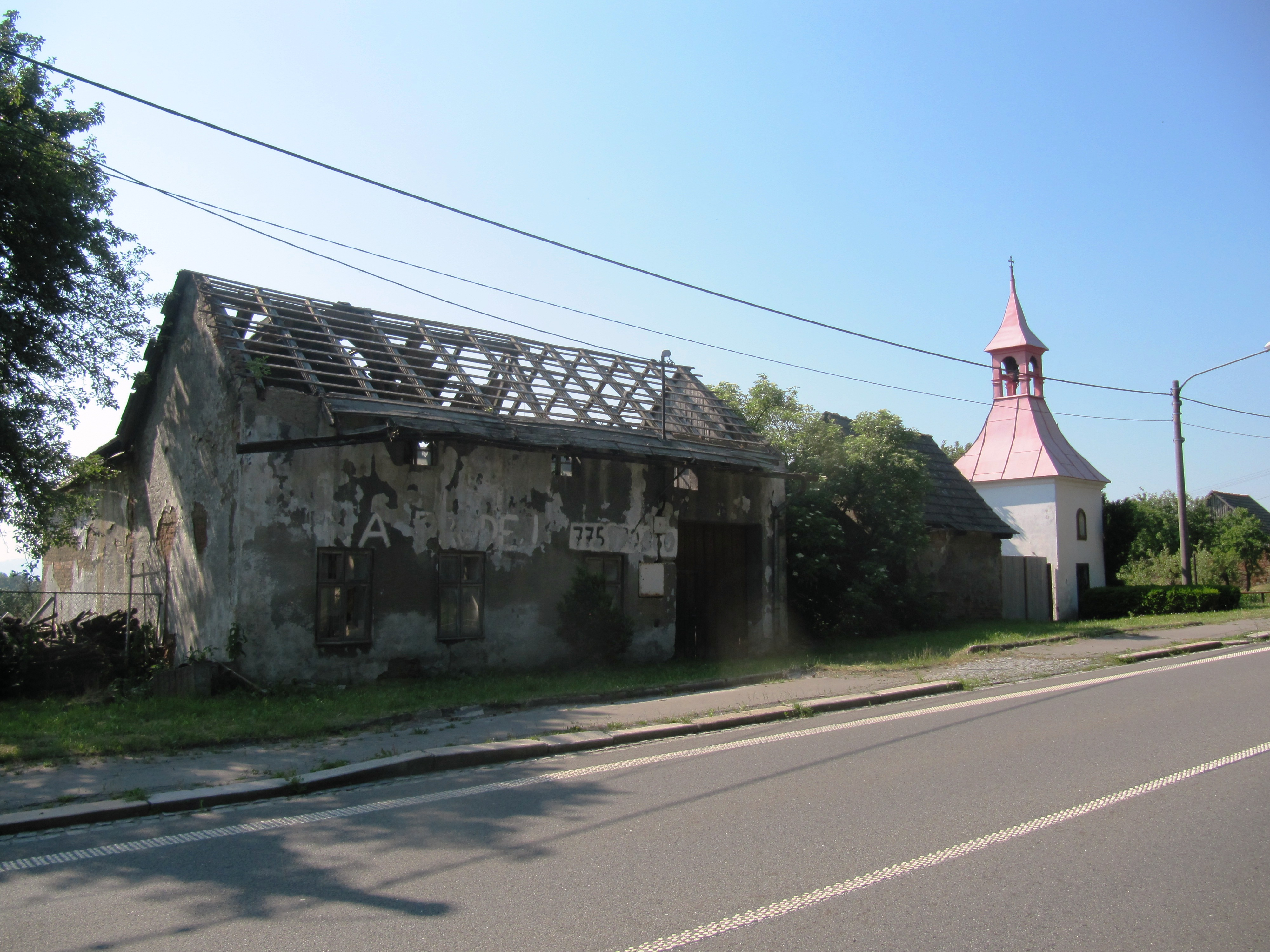 Vražné, Nový Jičín District, Czech Republic, part Emauzy.